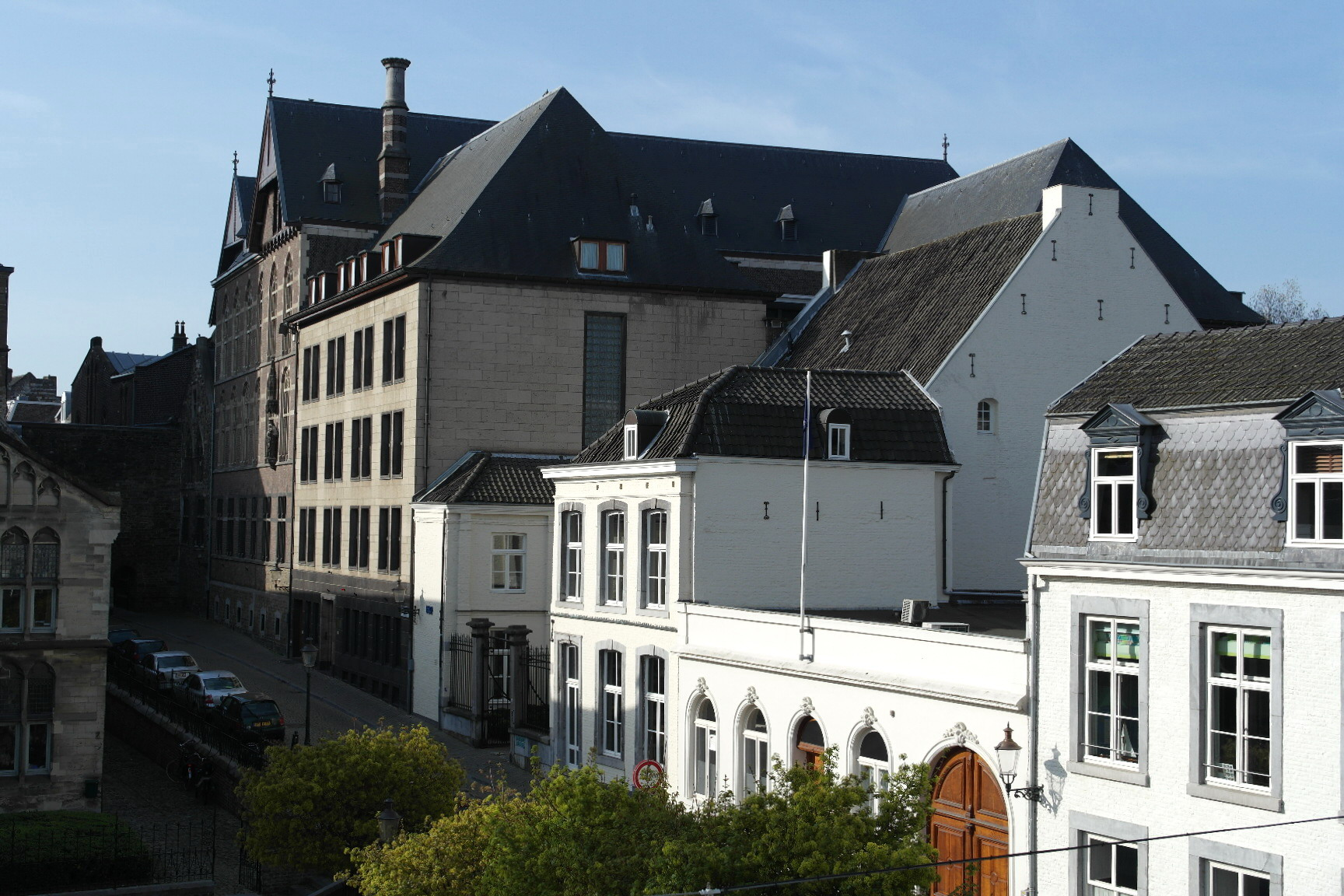 Maastricht, the Netherlands. Morning view of the nunnery of the Sisters of Mercy of St. Borromeo (Zusters onder de Bogen) and canons houses at Keizer Karelplein.